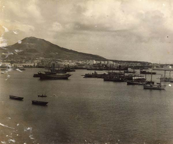 Las Isletas Bay. La Luz Harbour at 1920. Las Palmas de Gran Canaria, Gran Canaria, Canary Islands. Unknow author, year 1920.